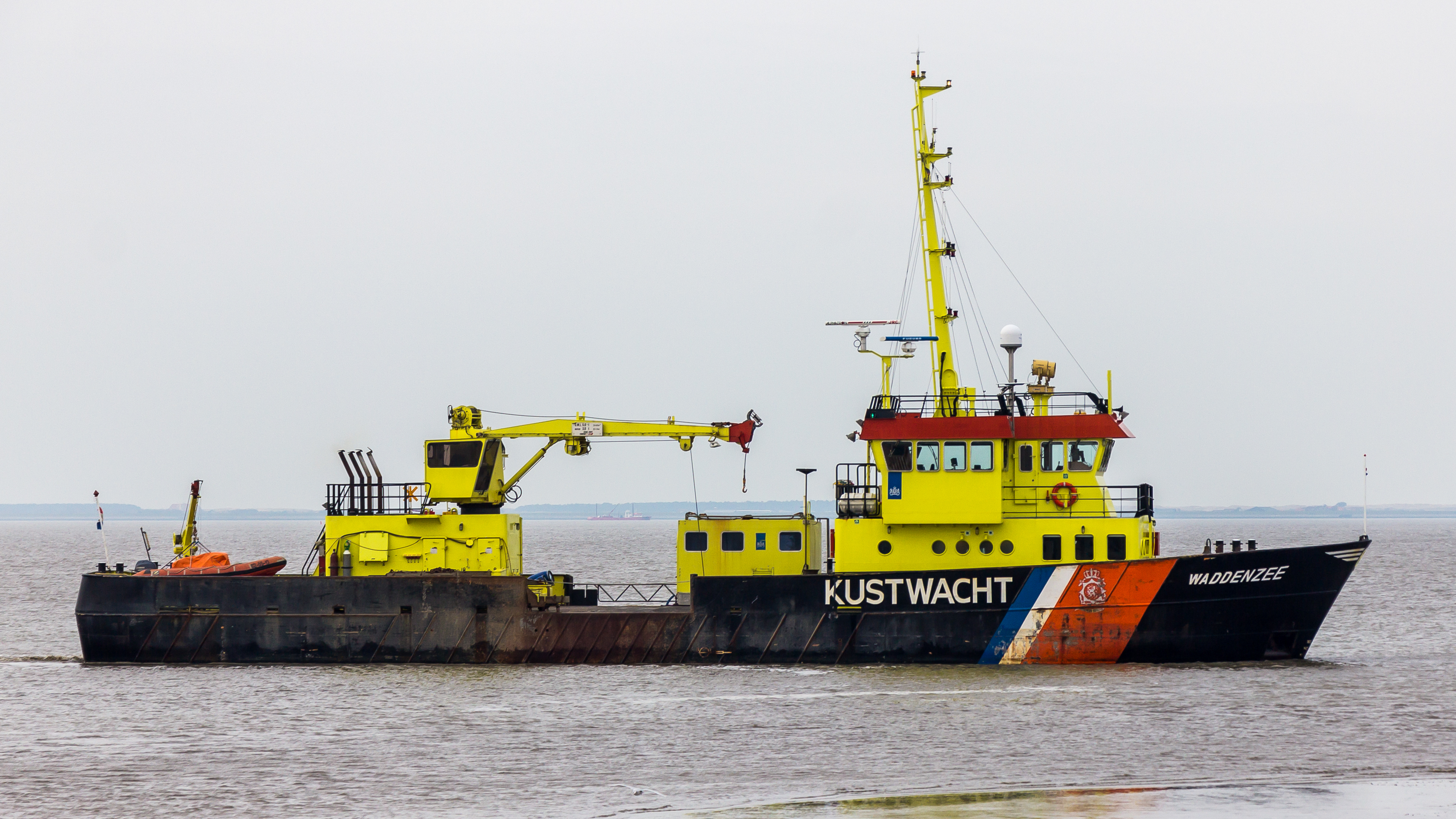 The Buoy-Laying vessel Waddenzee, IMO 9065467, near the coast of Holwerd